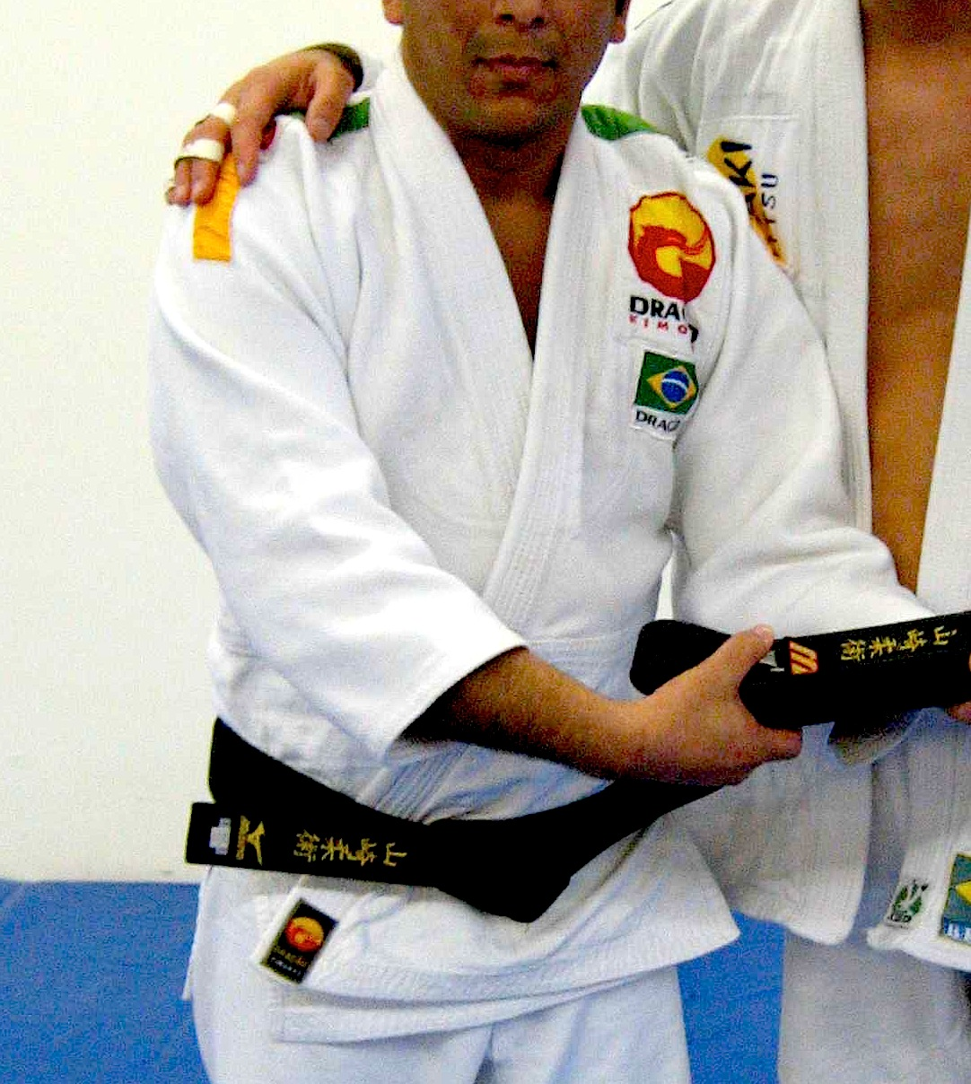 uwagi crop from original photo